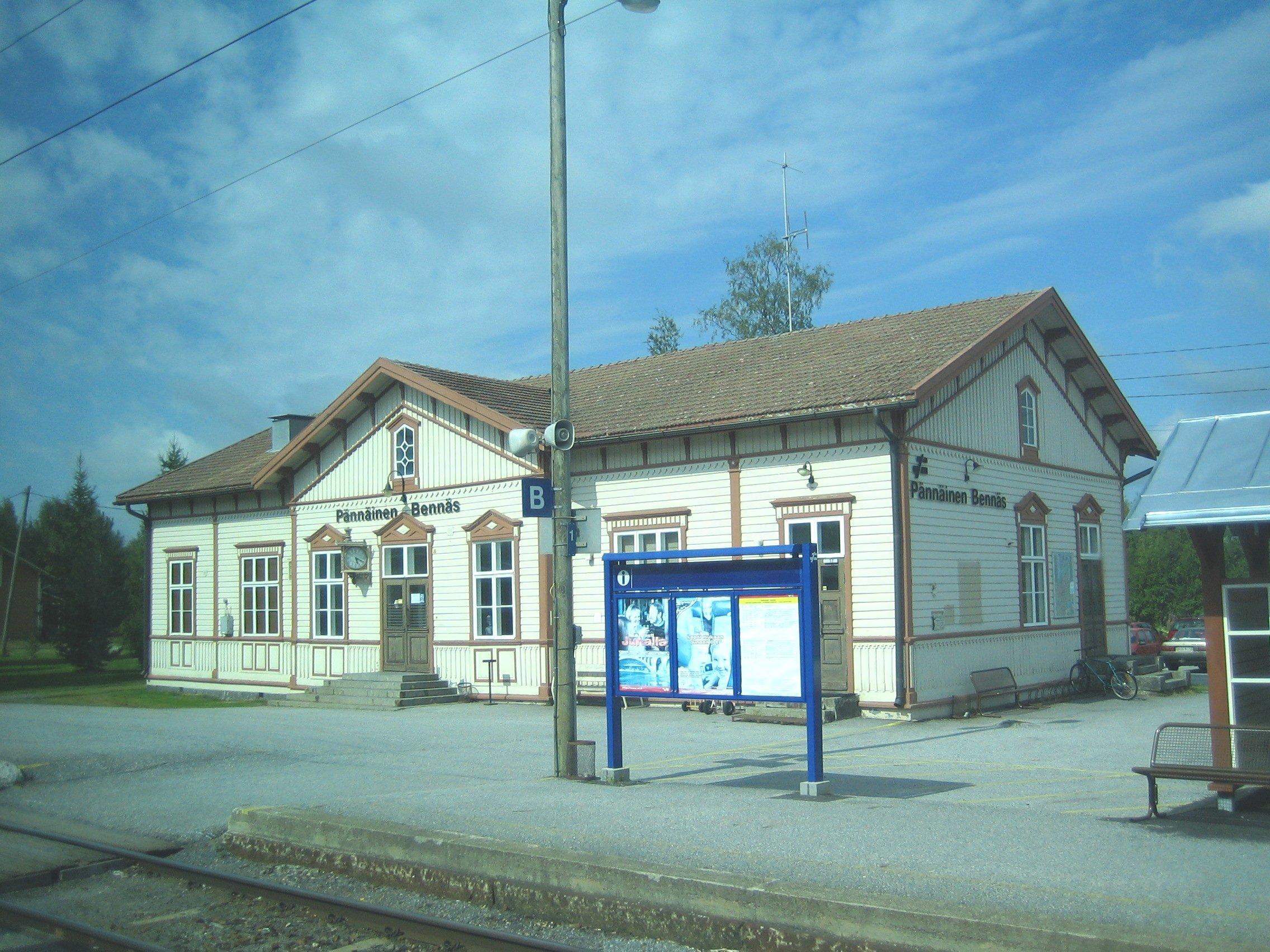 Bennäs railway station, Pedersöre, Finland.